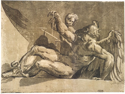 Saturn. Chiaroscuro woodcut from four sticks in black and various shades of gray . 31.2 x 42.4 cm . Bartsch XII , 125 , 27 II . By Publisher Monogram Andreani . Glorious printing on fine laid paper without watermark , top and left with the full presentation , down to about 10 mm , right trimmed by about 15 mm . Partly creases by the pressure at the top , otherwise very nice specimen by Ugo da Carpi, (after Parmigianino) [1]